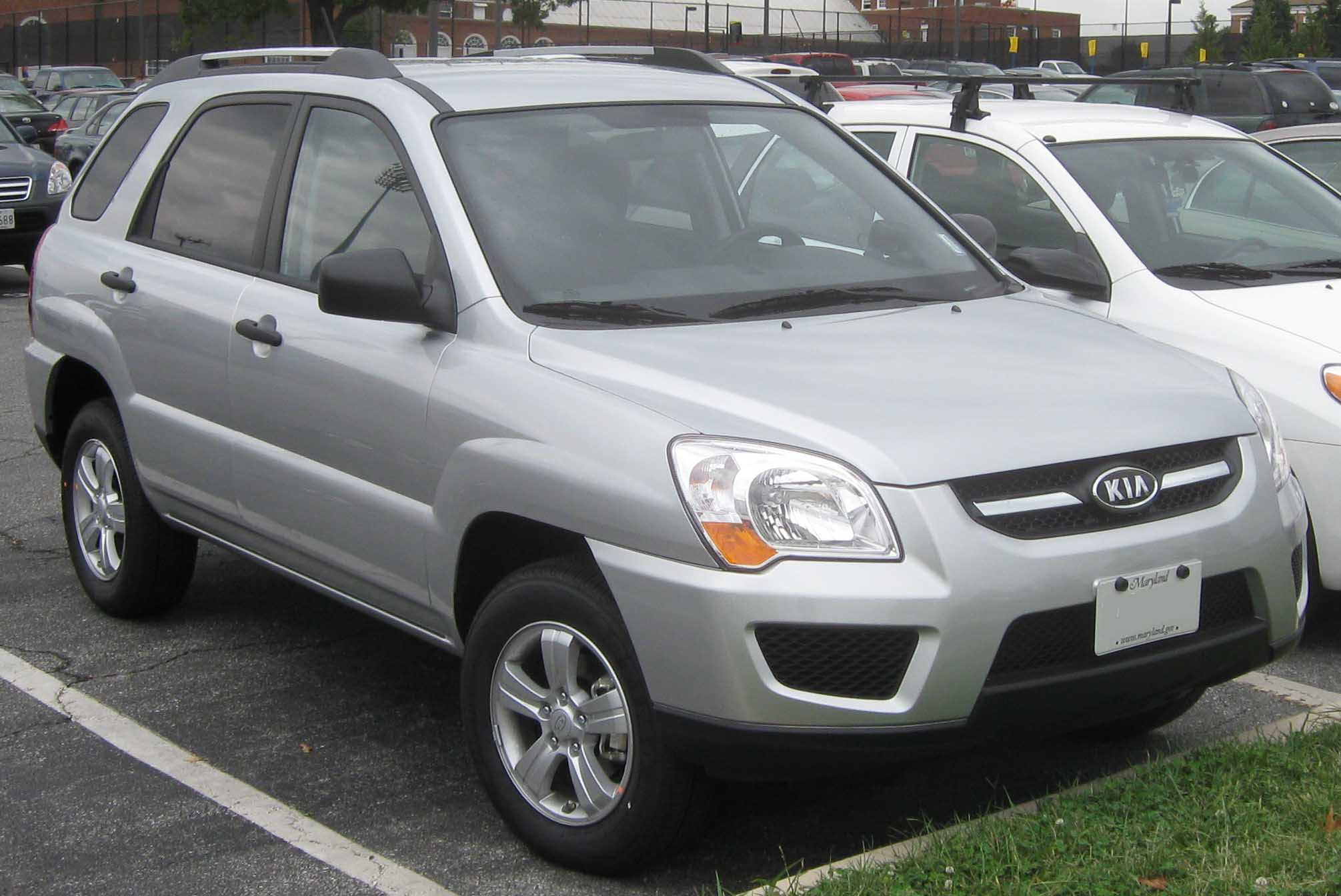 2009 Kia Sportage photographed in College Park, Maryland, USA.